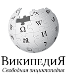 Wikipedia logo 2.0